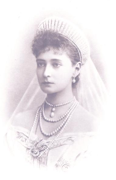 Empress Alexandra Feodorovna in her wedding dress.